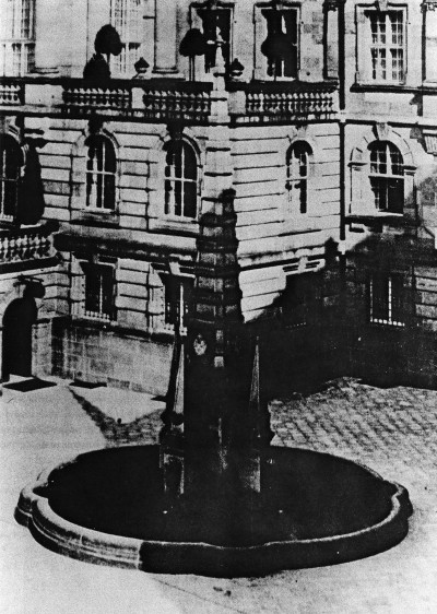 The original "Aschrott fountain" by architect Karl Roth in 1908